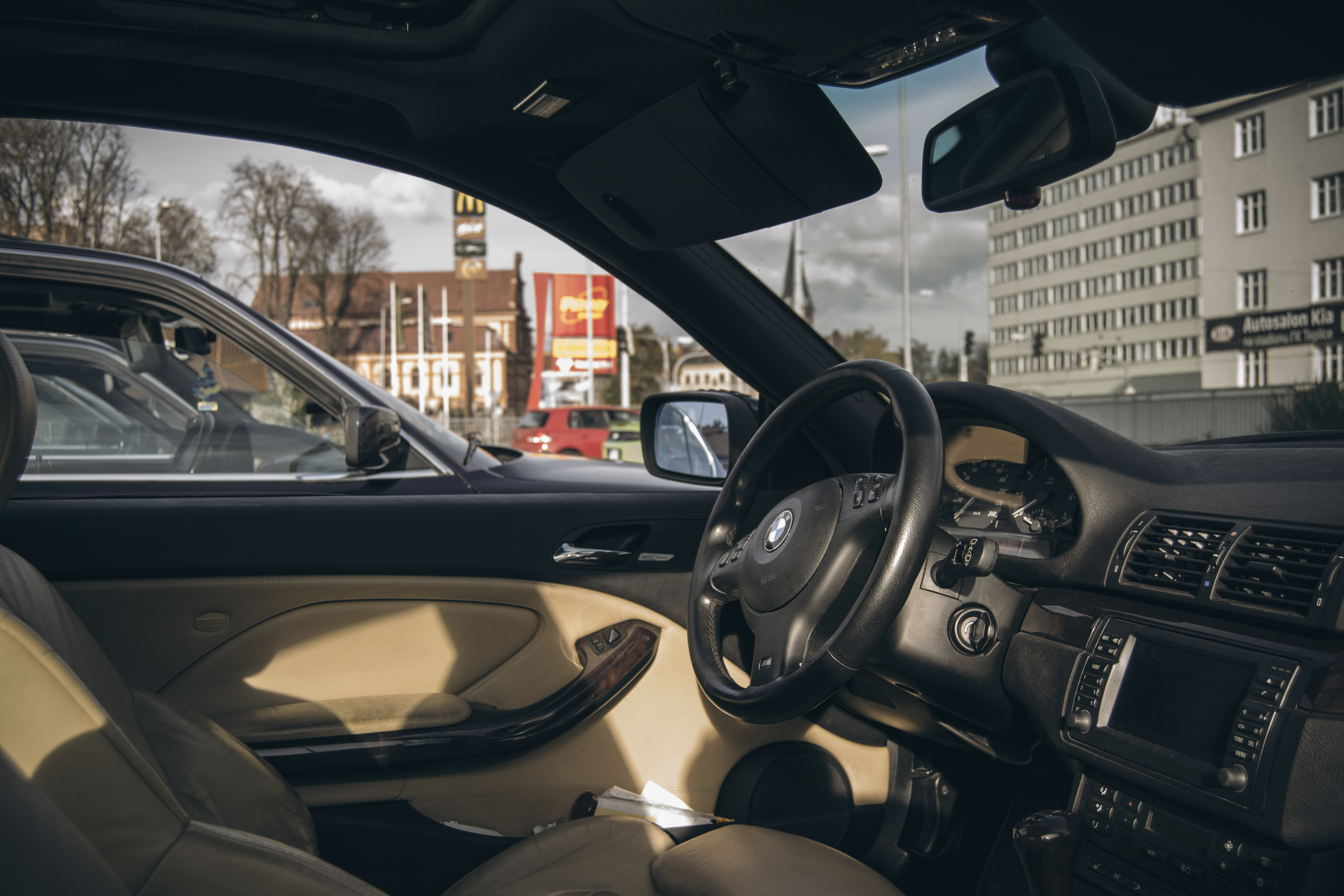 BMW E46 330i Coupe interior